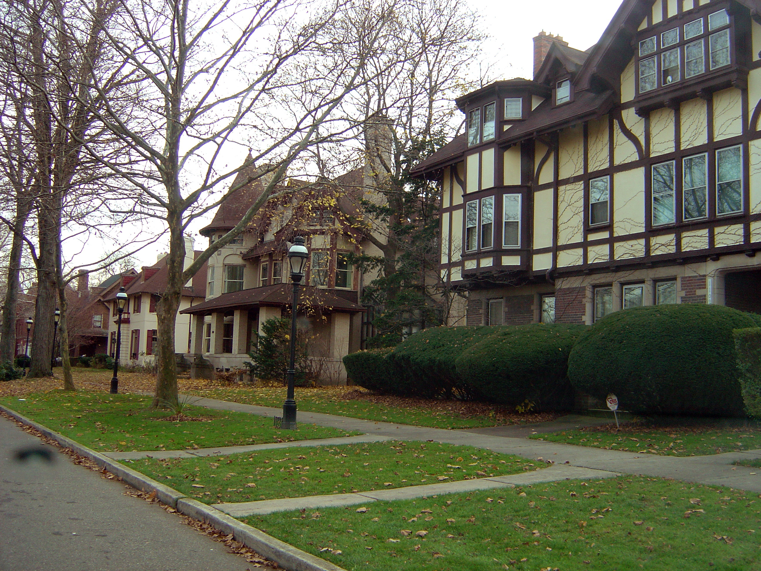 The Indian Village Historic District in Detroit, Michigan, United States, is listed on the US National Register of Historic Places (NRHP).NRHP reference number 72000667